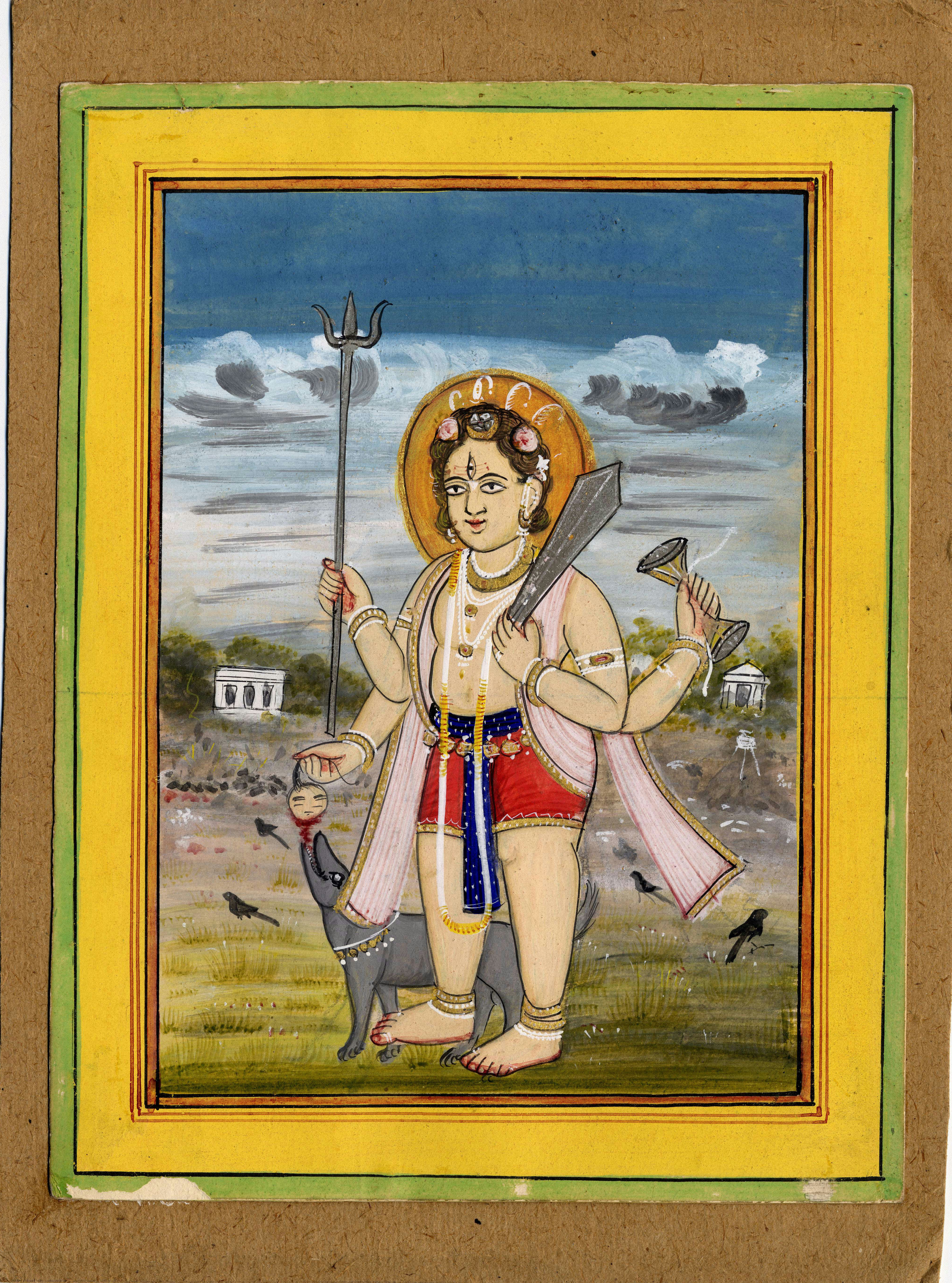 Gouache painting on paper. A standing figure of Bhairava, a form of Śiva.